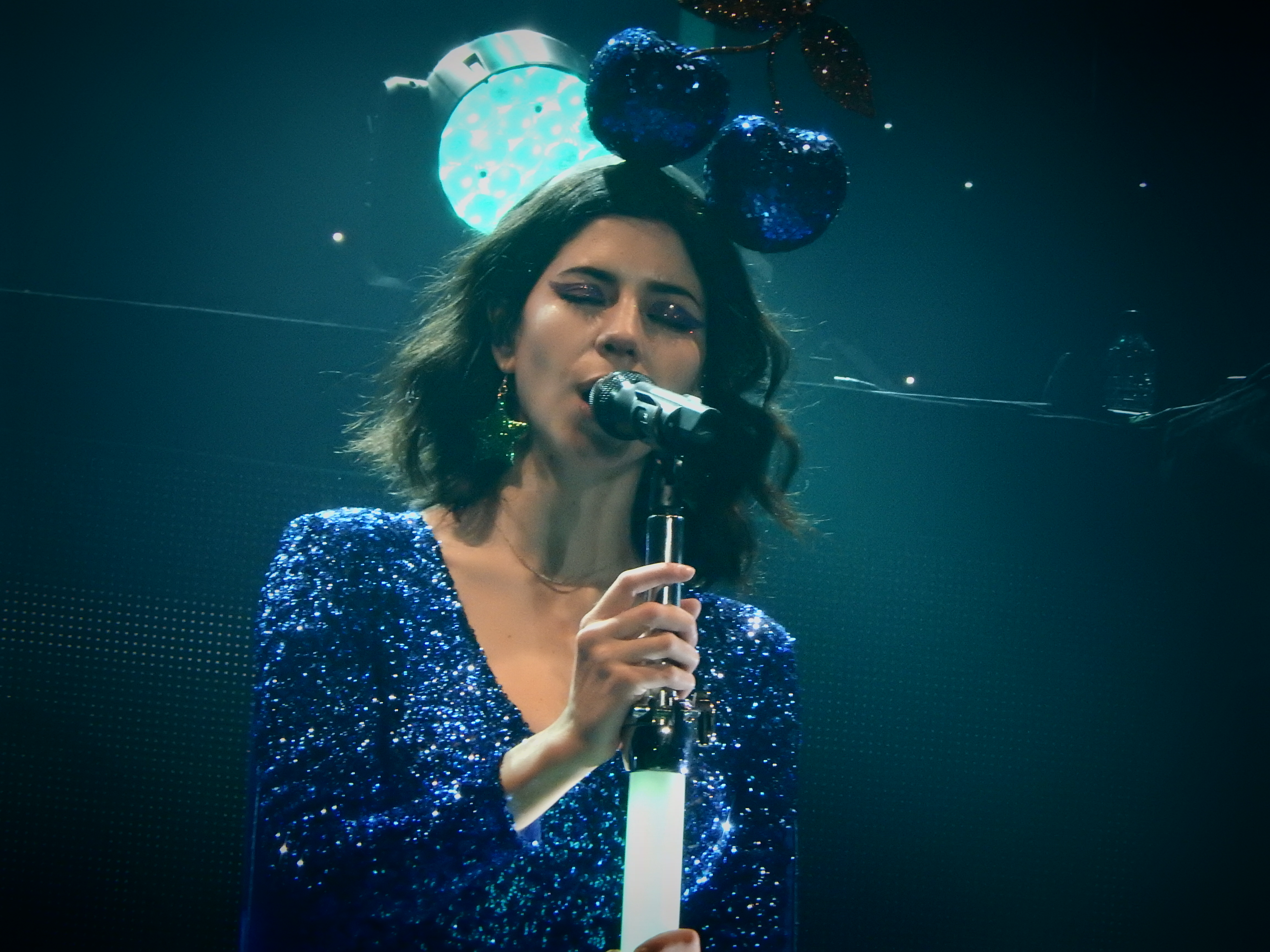 Marina and the Diamonds, Roundhouse, London